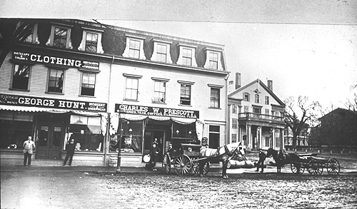 Monument Square and Mill-Dam Company, Concord , Mass.